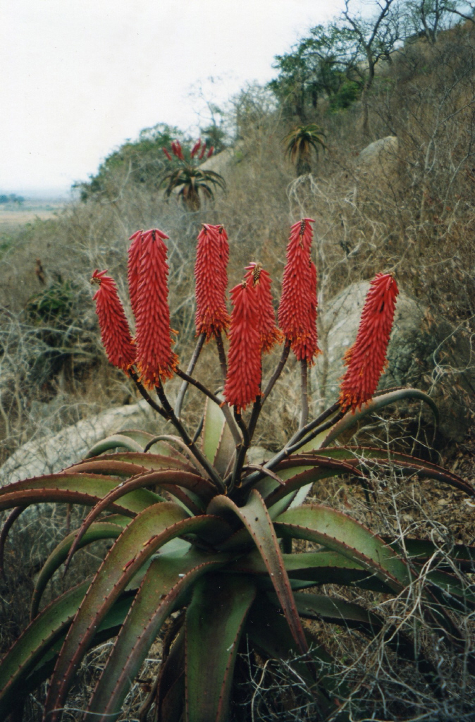 A Zimbabwe aloe near Matsinho in Manica province of Mozambique. Here one can find several different colors of which the red form is most prevalent.